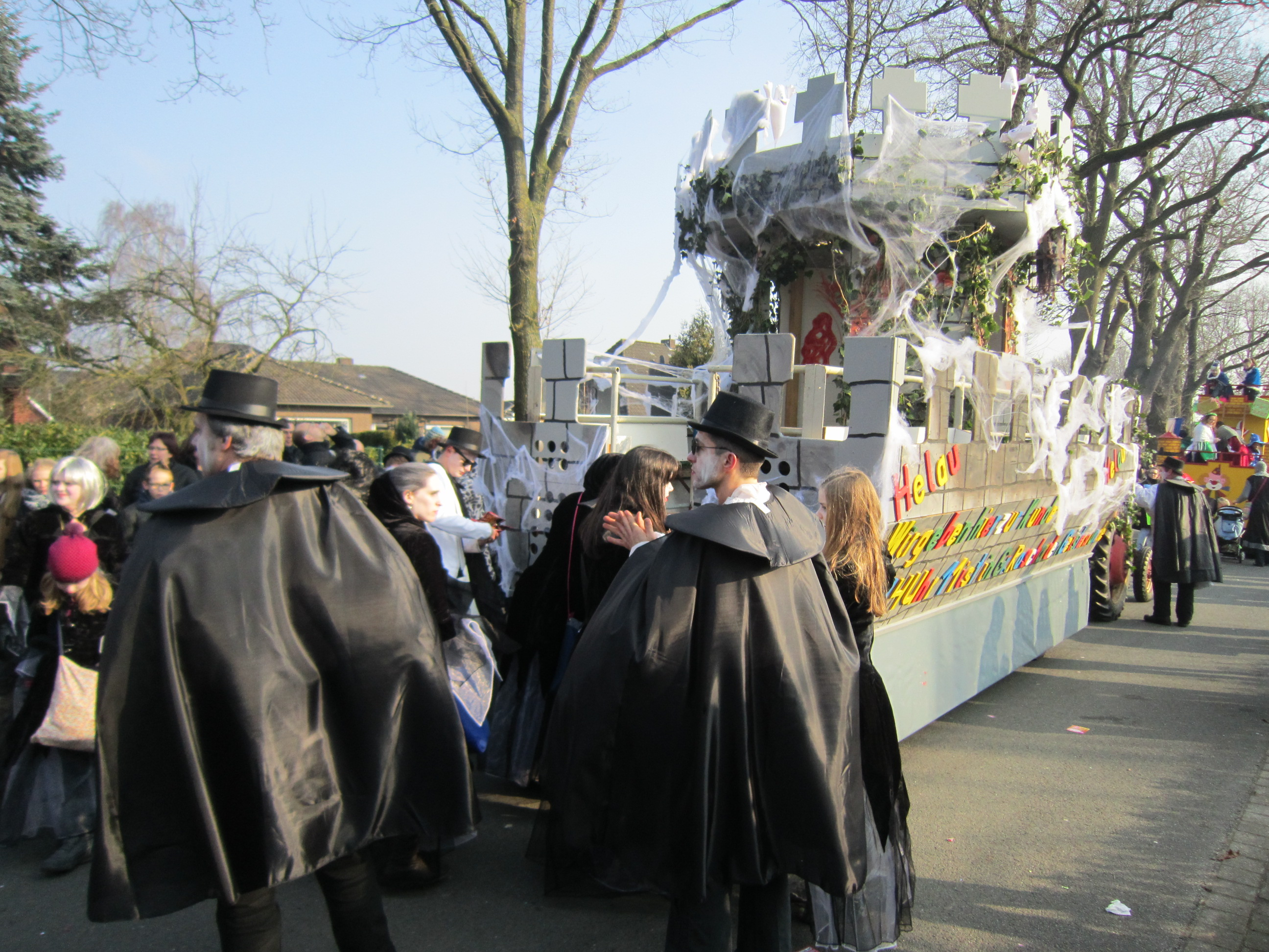 Carnival 2015 in Lastrup (Landkreis Cloppenburg, Lower Saxony)